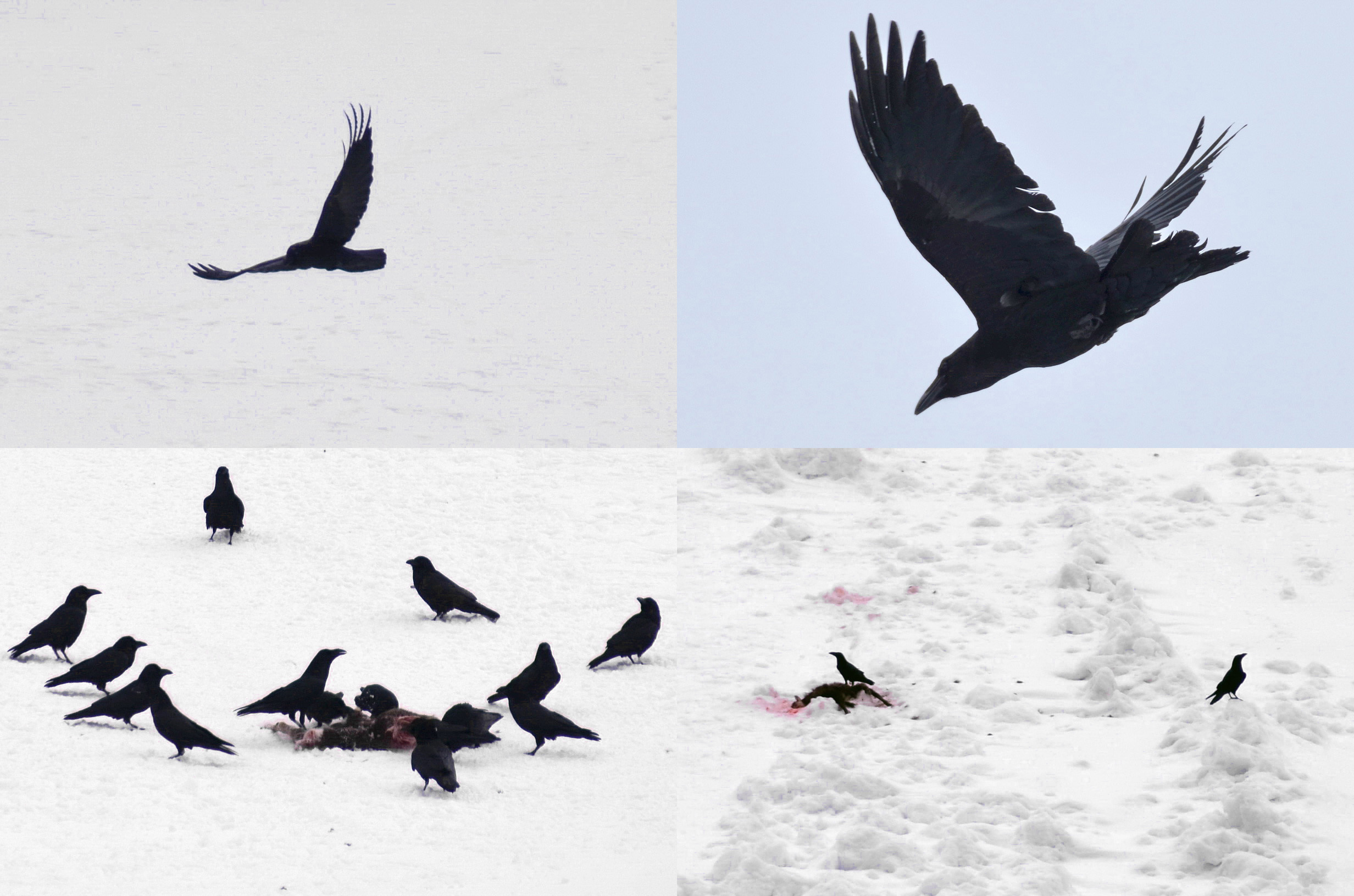 With prey (dead chamois) there are alway ravens (corvus corax) to eat the meat!!